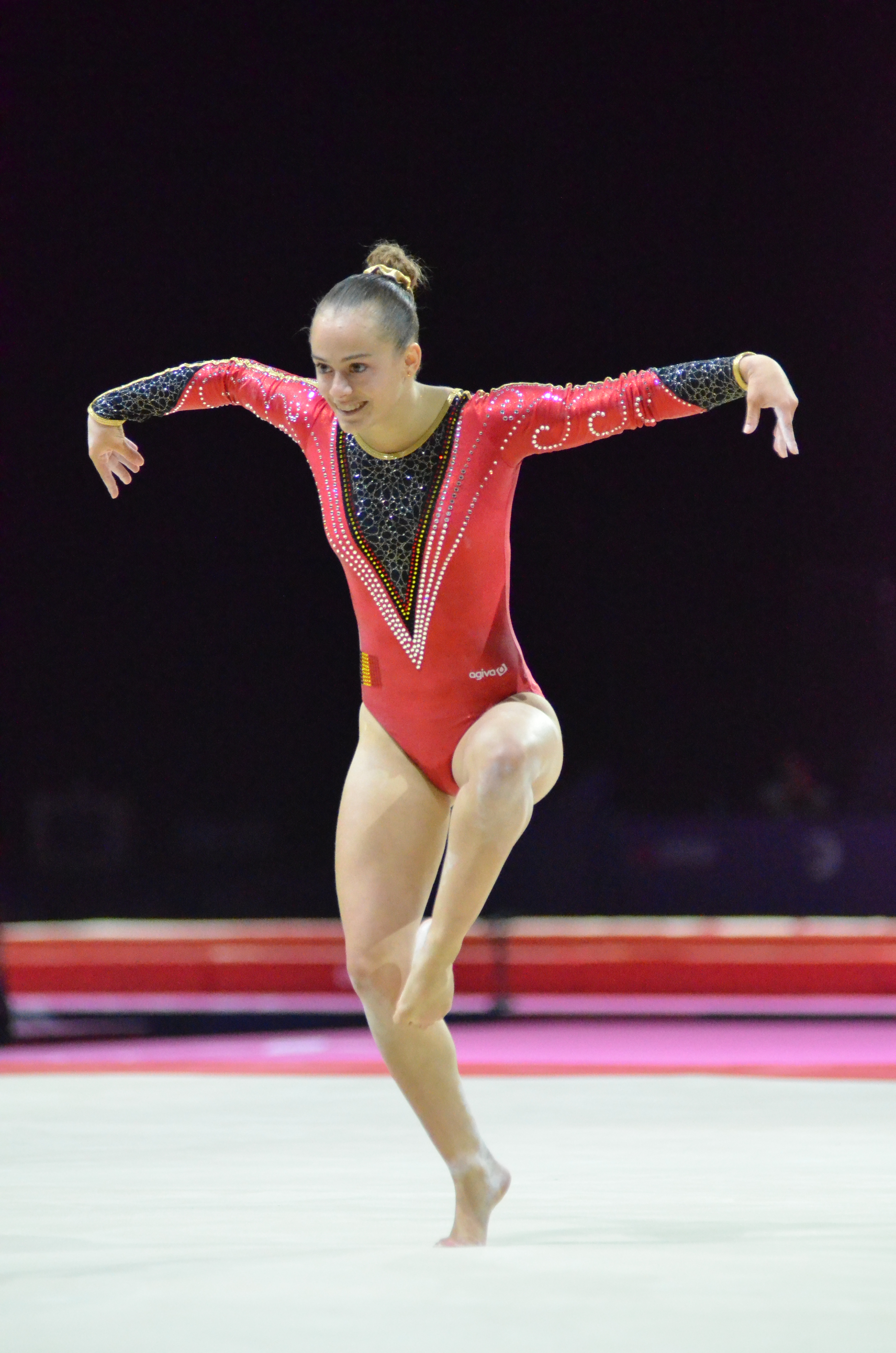 Axelle Klinckaert (BEL) Floor - Subdivision 3 - Rotation 2 - Women's Qualifications - Artistic Gymnastics European Championships Glasgow 2018, The SSE Hydro, Glasgow Scotland, August 2nd, 2018 - Photo by Alex Filipov Instagram: @a.s.photoz